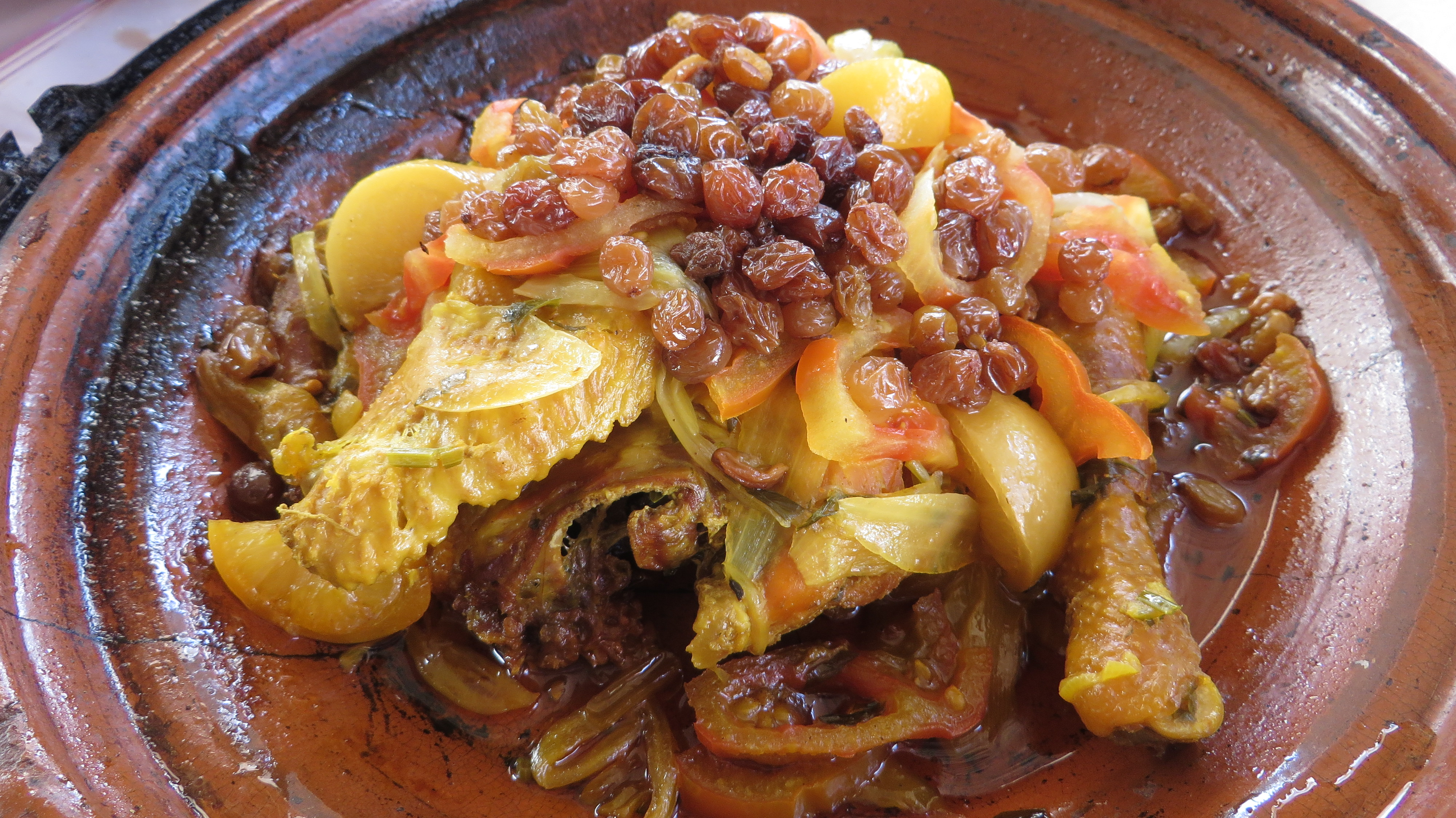 Moroccan Tajine, with chicken, dried resins, onions and pickled lemon. From the Idaoutanane / Agadir region, south Morocco. This is an image of food from Morocco